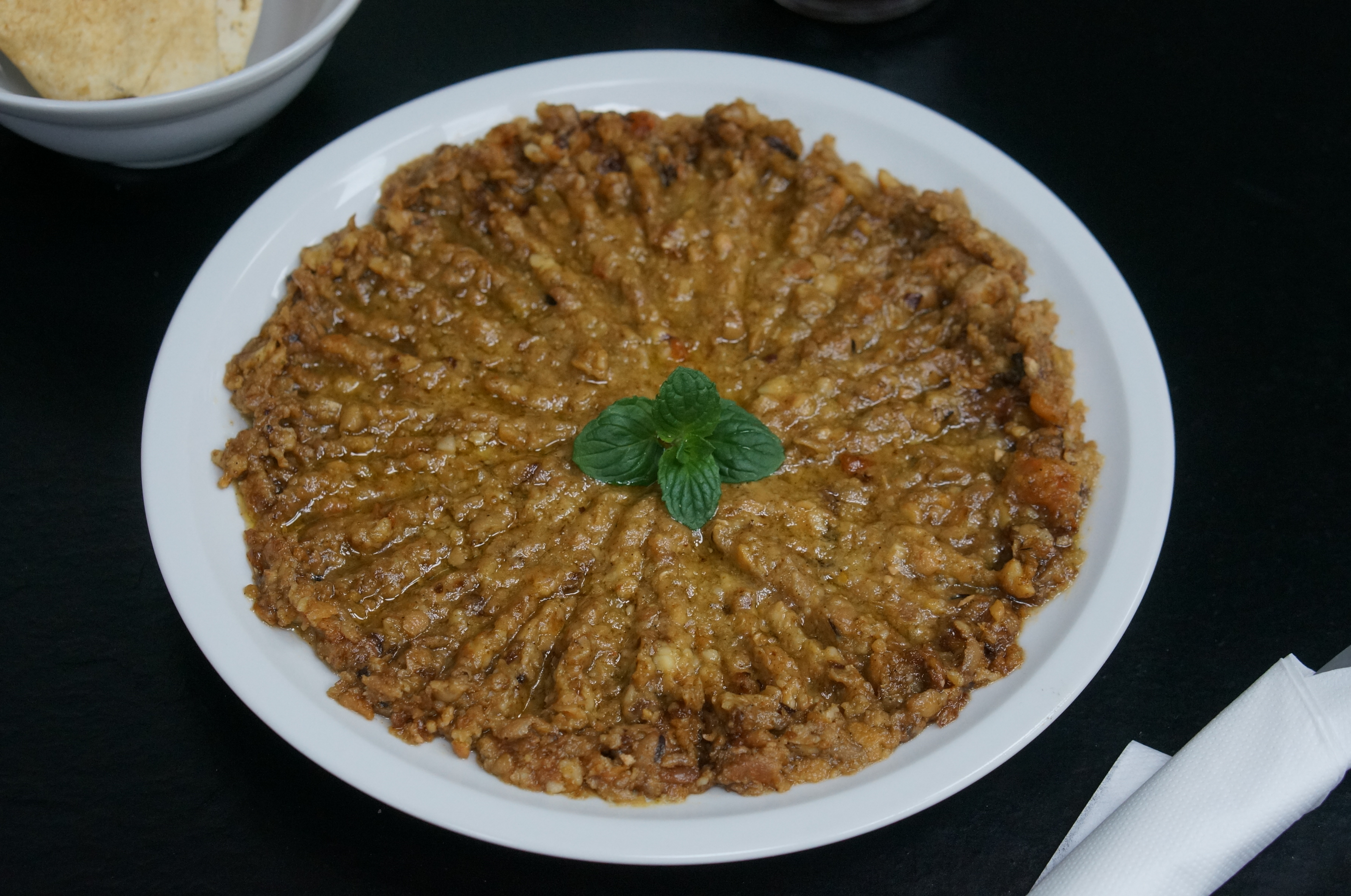 Arabic Ful medames